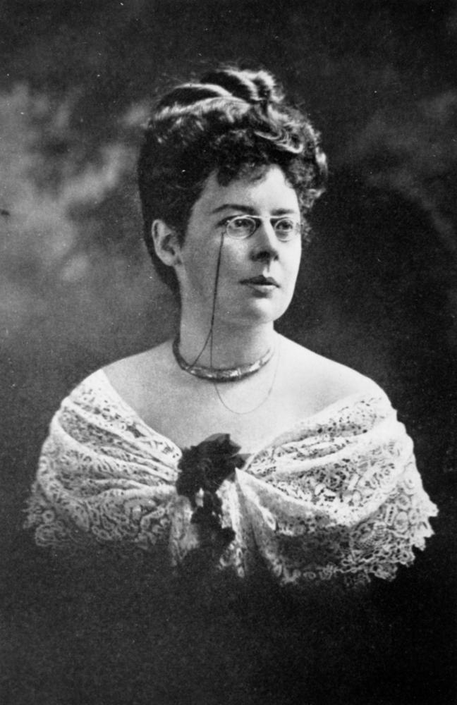 Beatrice Grimshaw, author